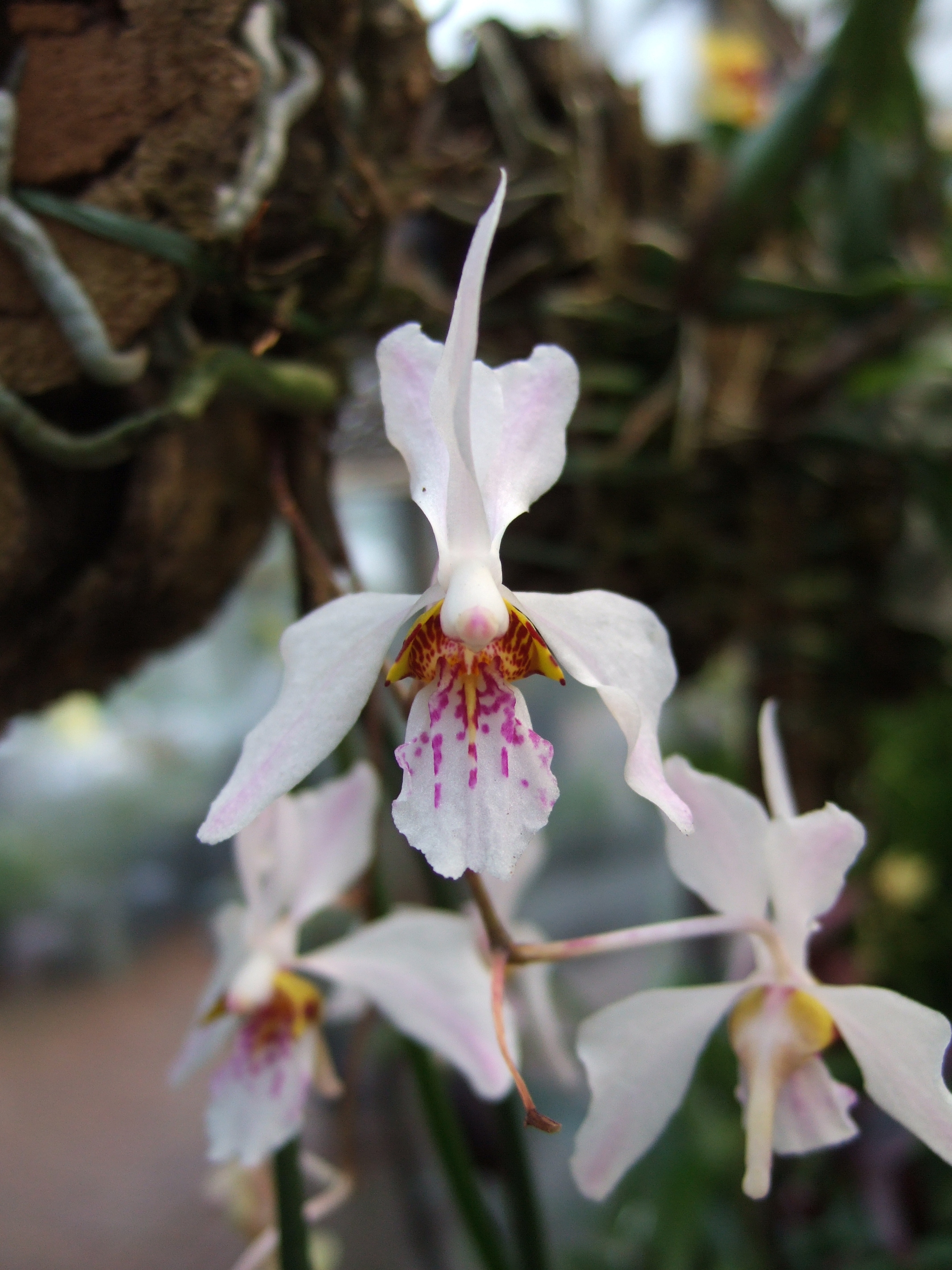 Flower of Holcoglossum wangii.